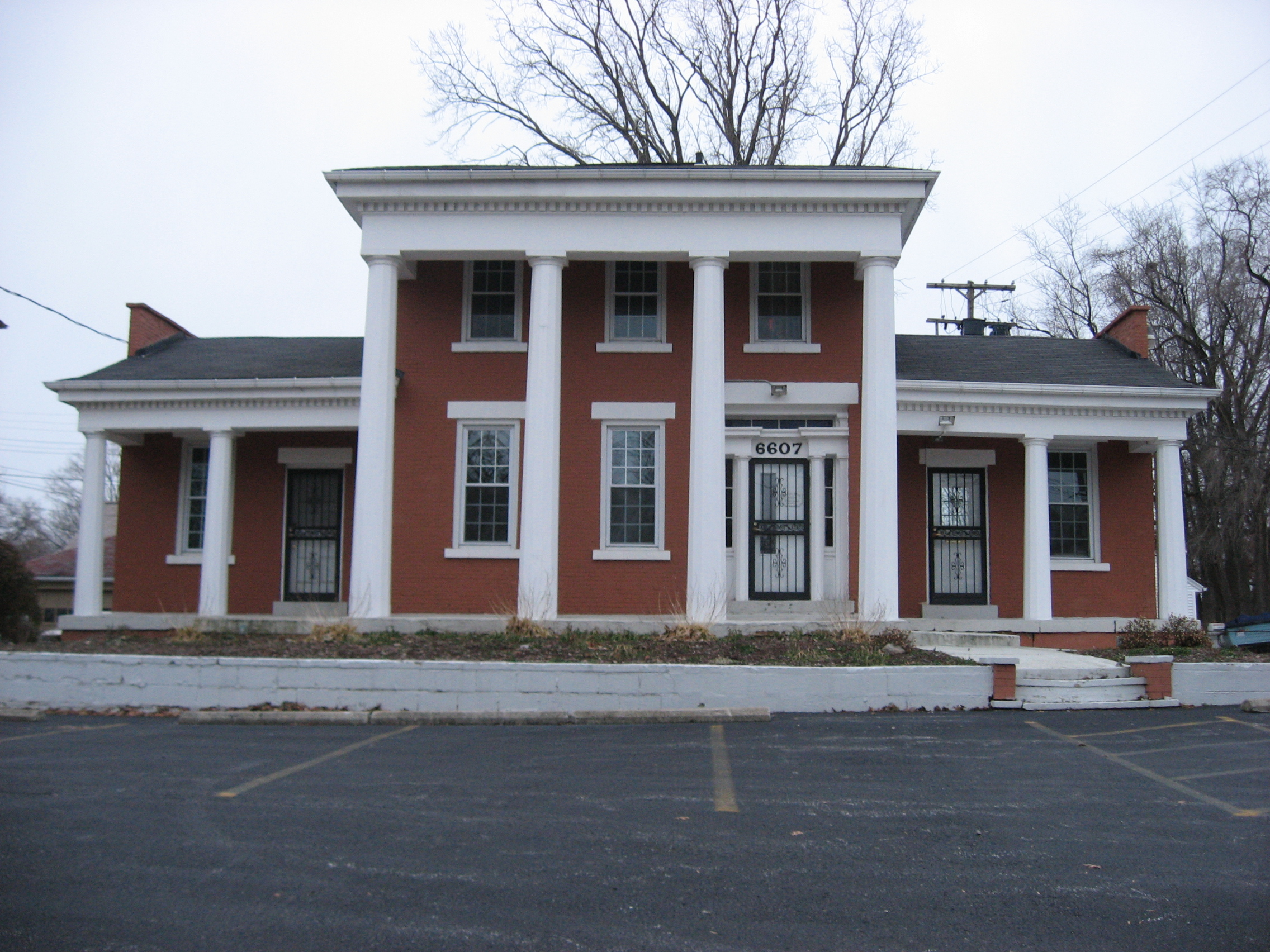 Front of the Robert W. Henry House in central Parma Heights, Ohio, United States. Located at 6607 Pearl Road (U.S. Route 42), the property (now American Eagle Realty) is listed on the National Register of Historic Places.